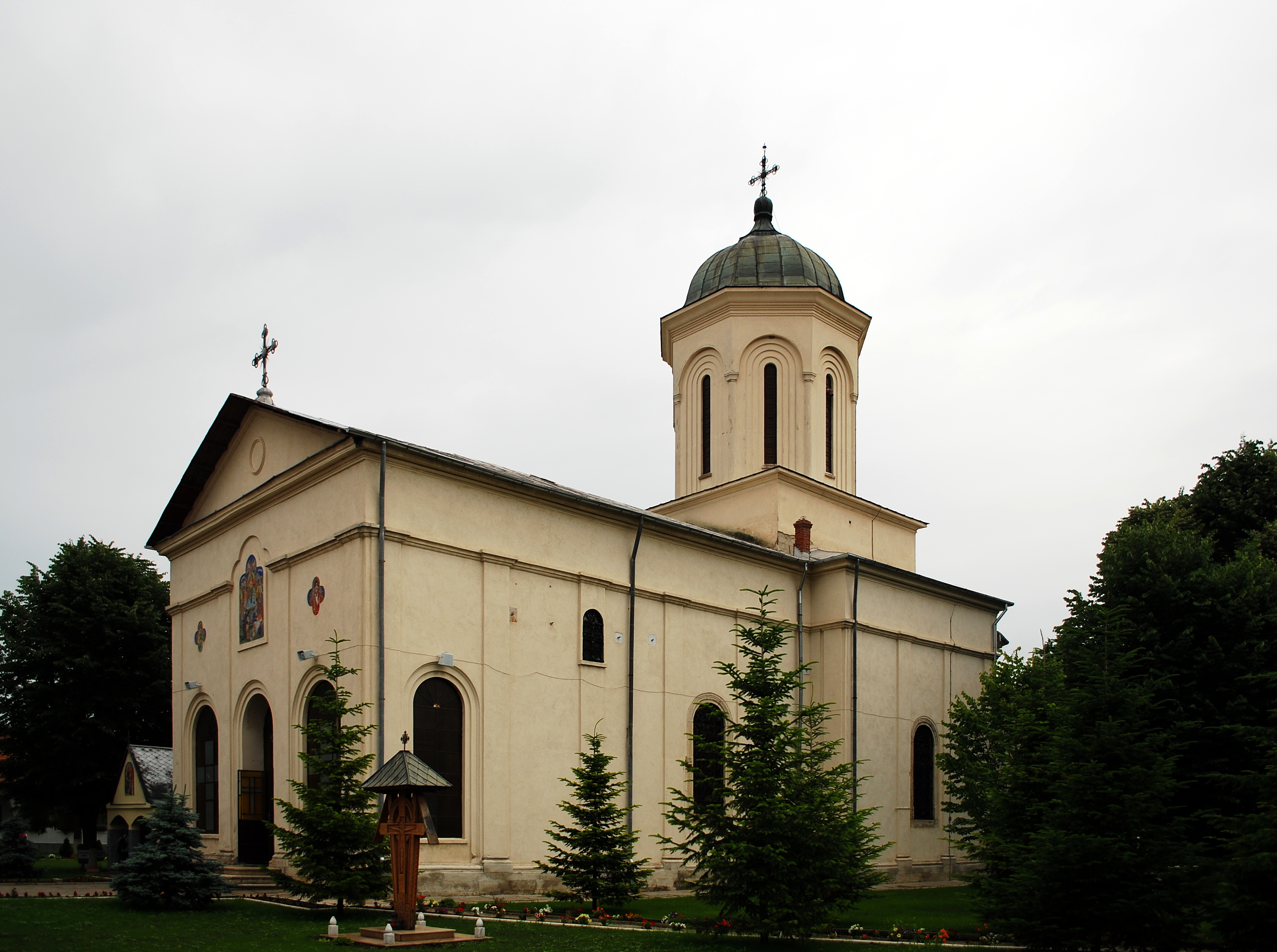 Church of the Life-giving Spring in the Ghighiu monastery, Prahova County, RomaniaRomână: Biserica Izvorul Tămăduirii de la mănăstirea Ghighiu, județul Prahova, România 01